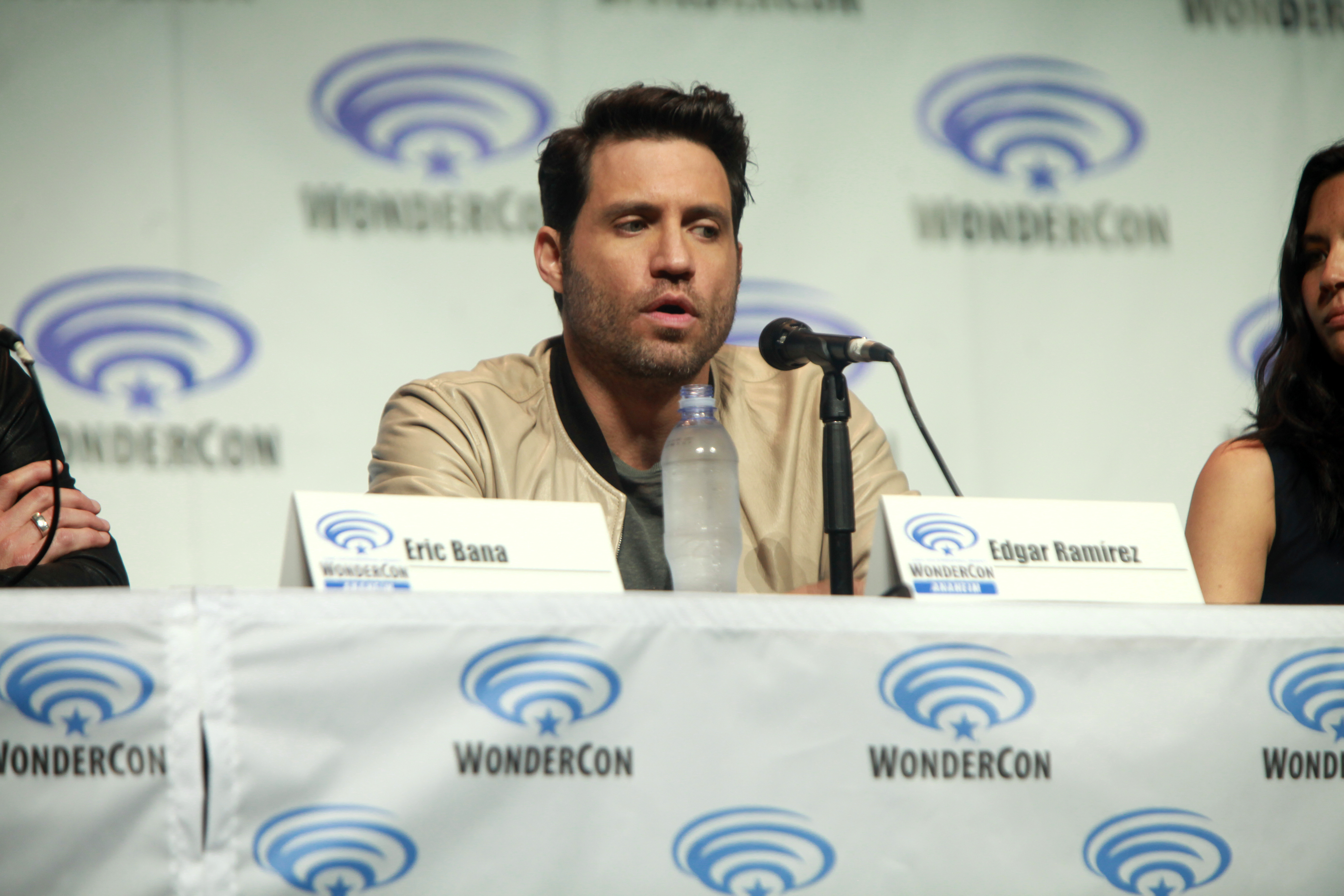 Edgar Ramirez speaking at the 2014 WonderCon, for "Deliver Us from Evil", at the Anaheim Convention Center in Anaheim, California.